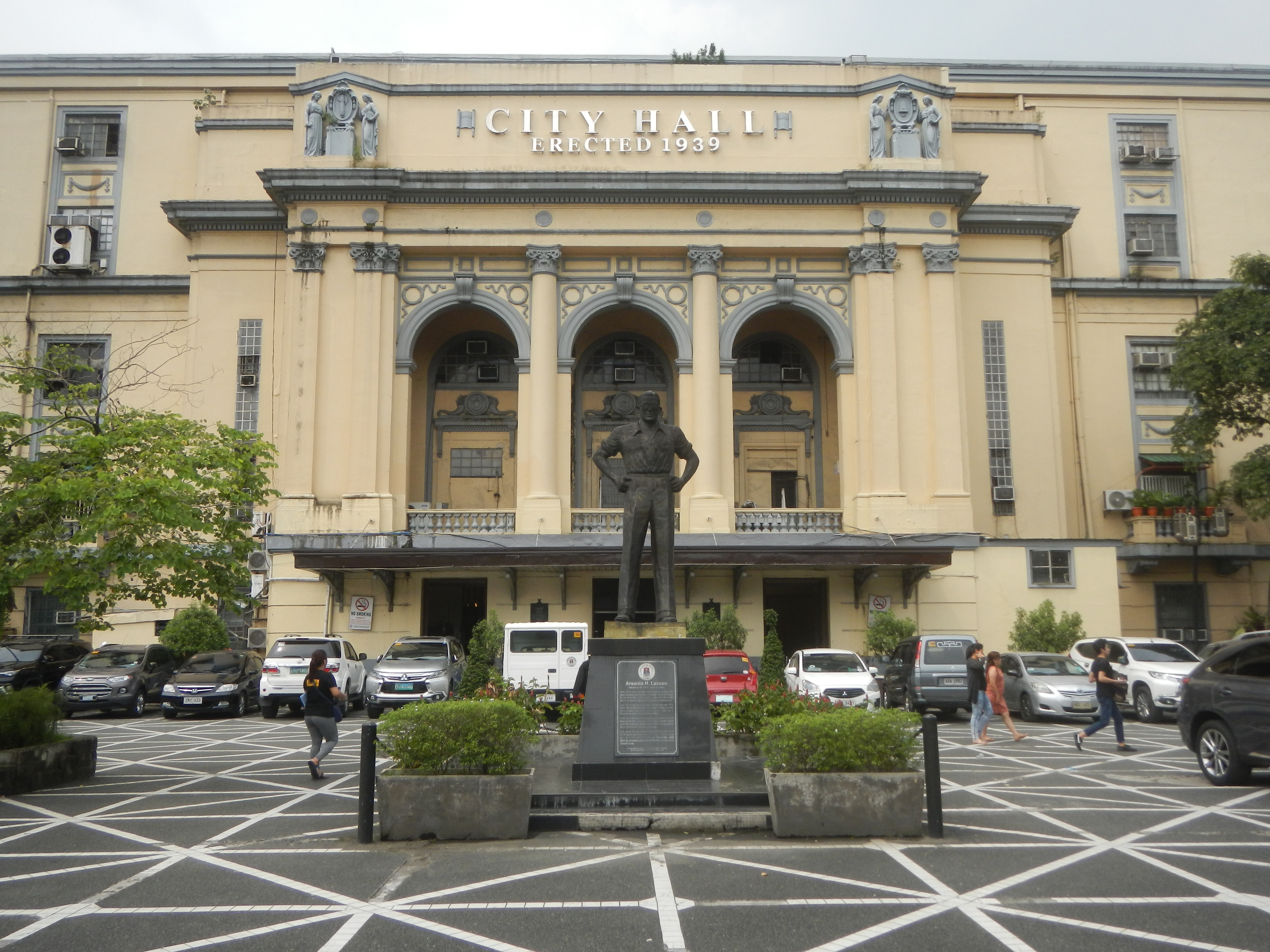 Canada and Philippines WWII Historical Markers, City Hall of Manila; Arsenio H. Lacson monument (Manila City Hall) City Hall 14°35'21"N 120°58'53"E (Note: Judge Florentino Floro, the owner, to repeat, Donor Florentino Floro of all these photos hereby donate gratuitously, freely and unconditionally all these photos to and for Wikimedia Commons, exclusively, for public use of the public domain, and again without any condition whatsoever).